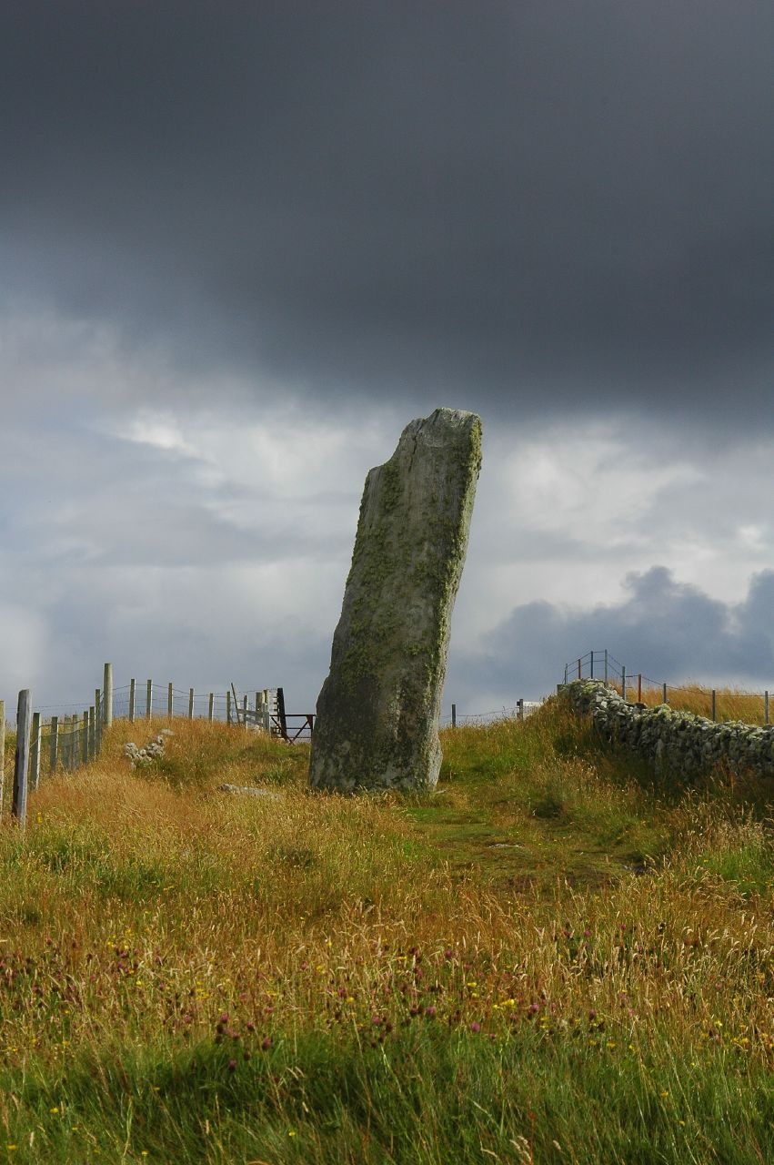 Photoraph of Clach An Trushal, on the Isle of Lewis, Scotland.